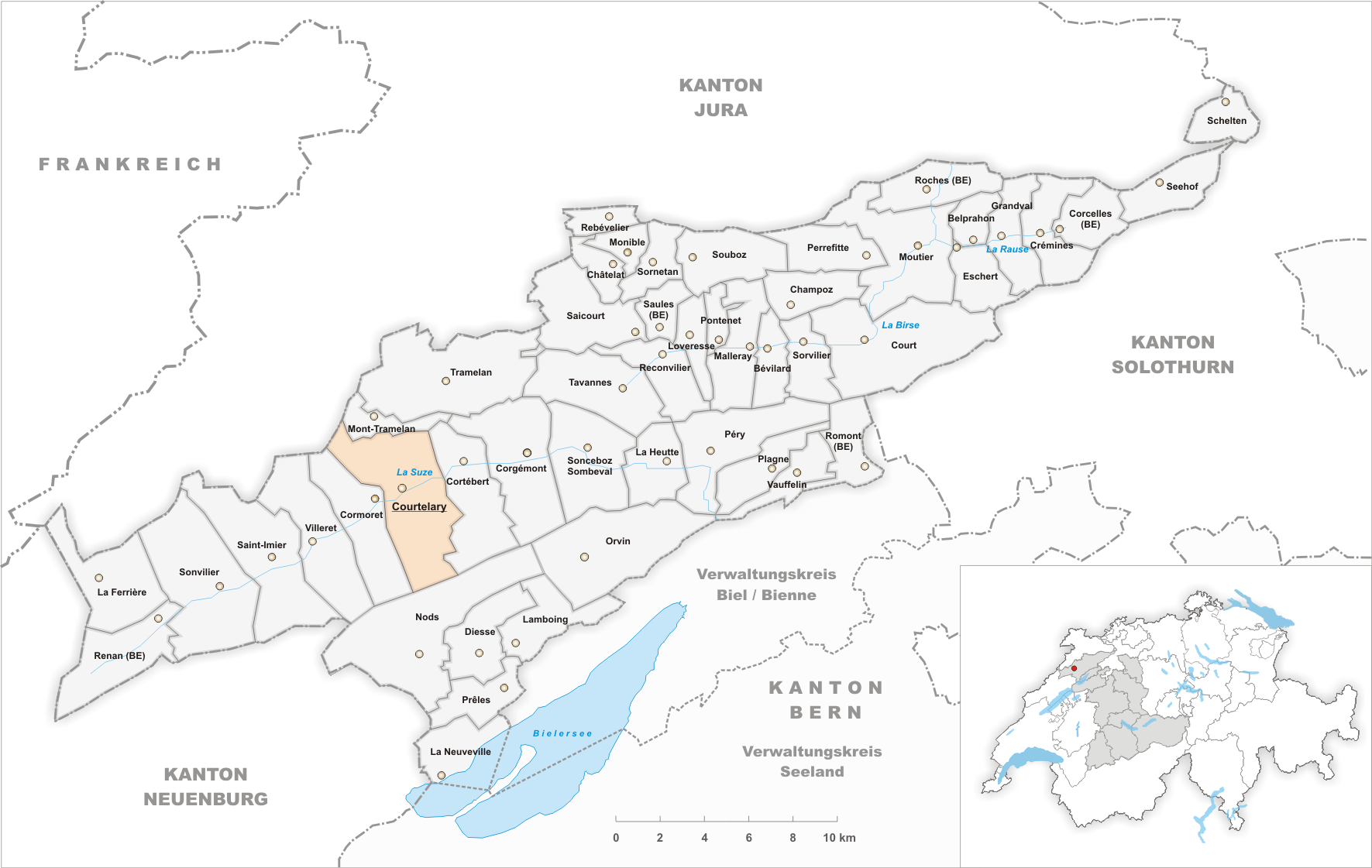 Municipality Courtelary